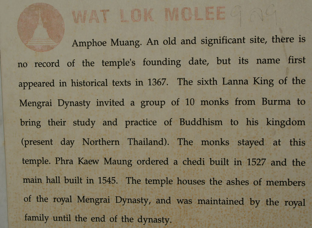 Info Panel in the Wat Lok Molee, Chiang Mai, Thailand. Depicted as source information for the related WP article.